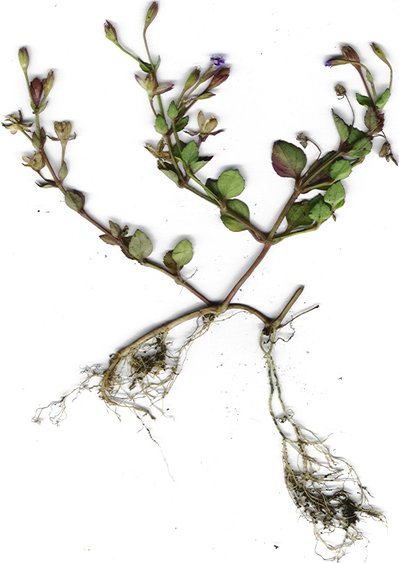 Lindernia crustacea (plant). Location: Hawaii, Hilo